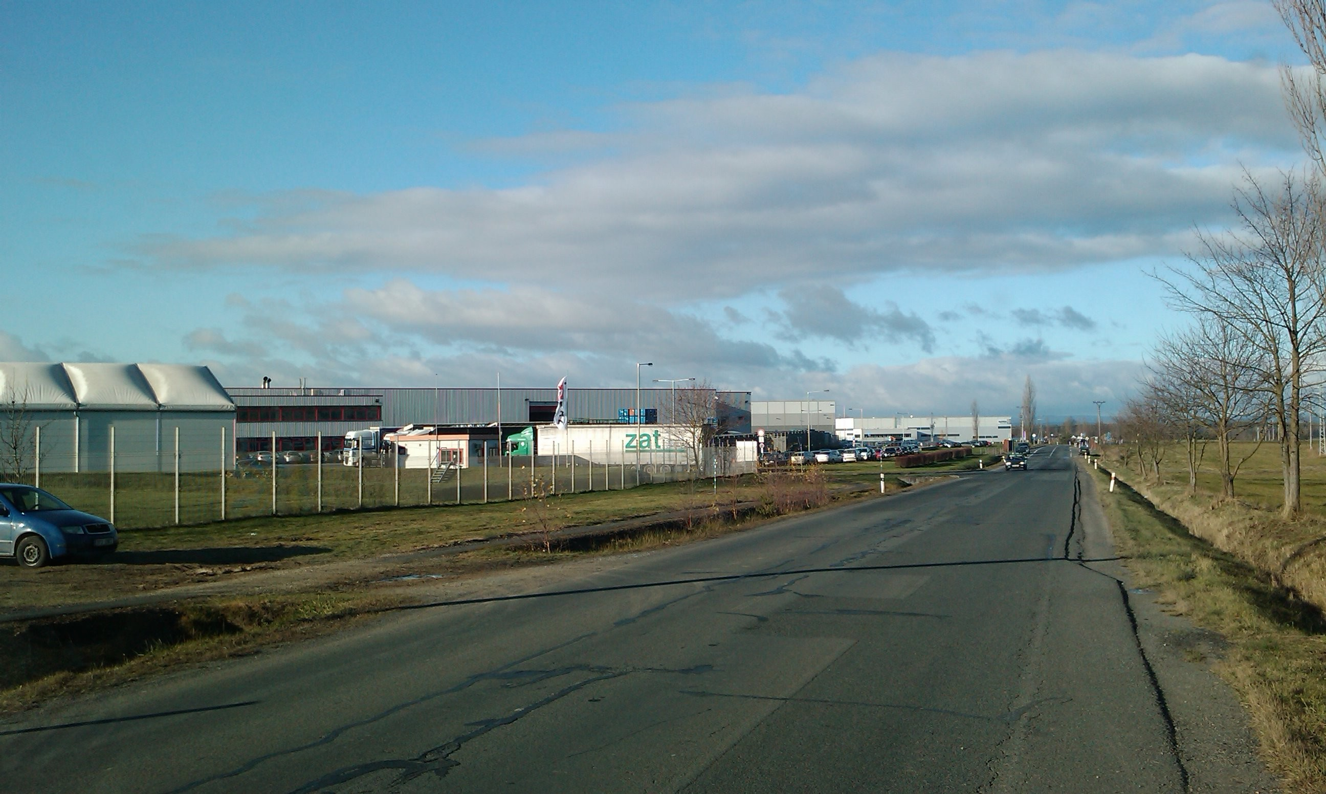 Nová Hospoda u Boru, modern industrial complex.